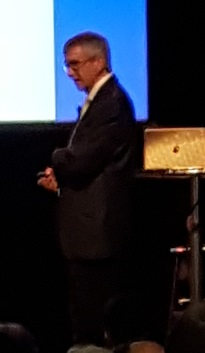 Richard Béliveau photographed in St. Eustache, Quebec, Canada.